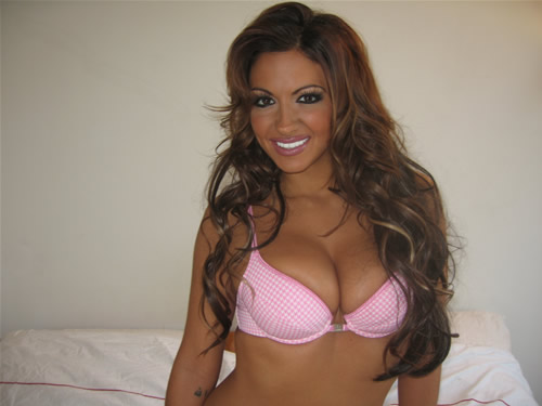 this is when i met her in 2005.. (yes i met her in her underwear... long story!) its from my camera